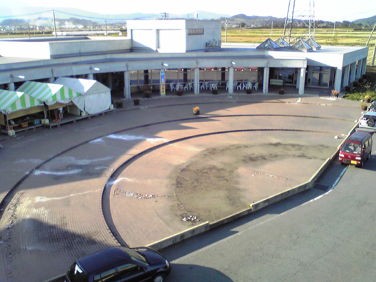 Plaza space at Michinoeki Murayama in Murayama City, Yamagata Prefecture, Japan